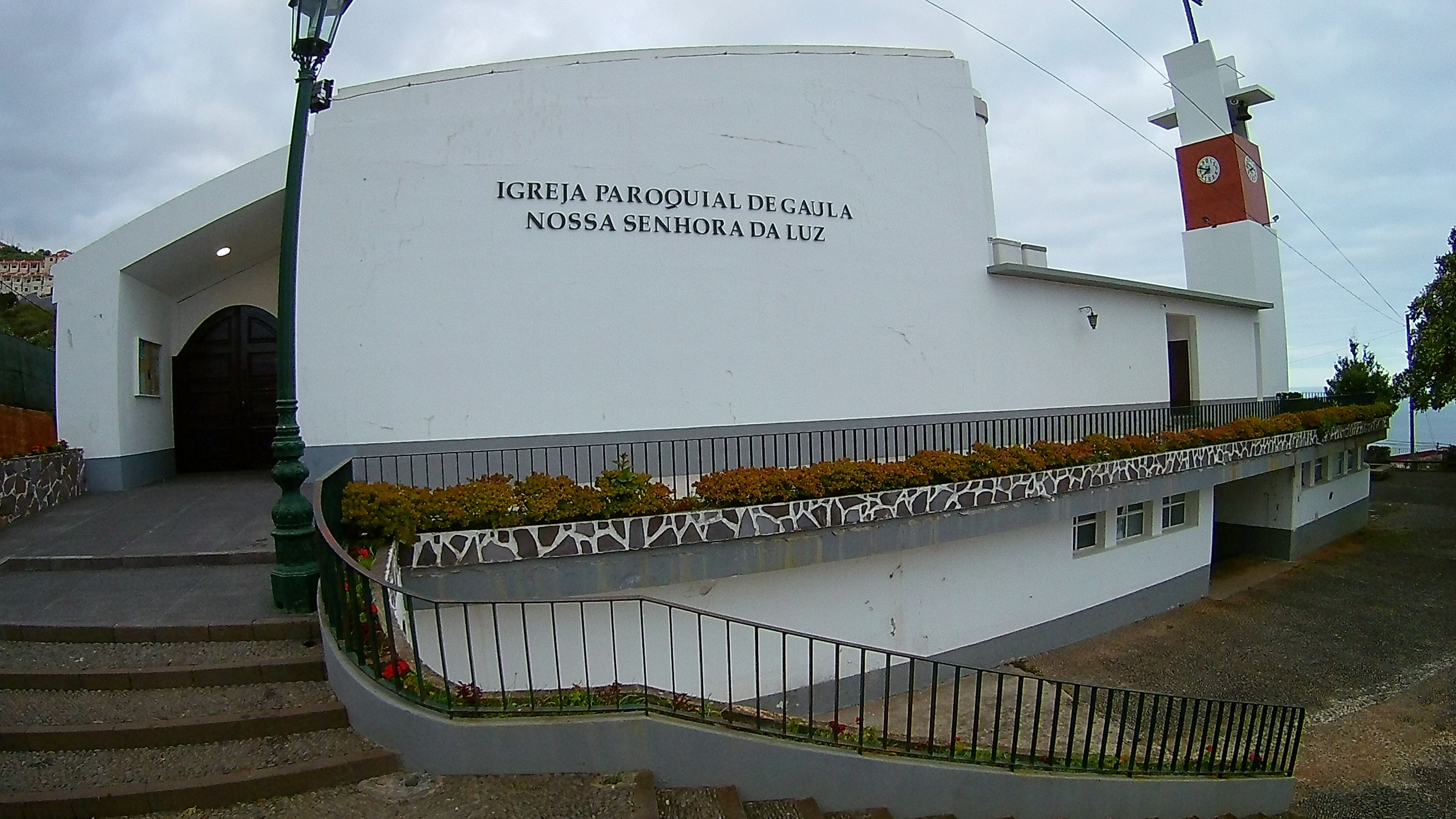 Church of Gaula